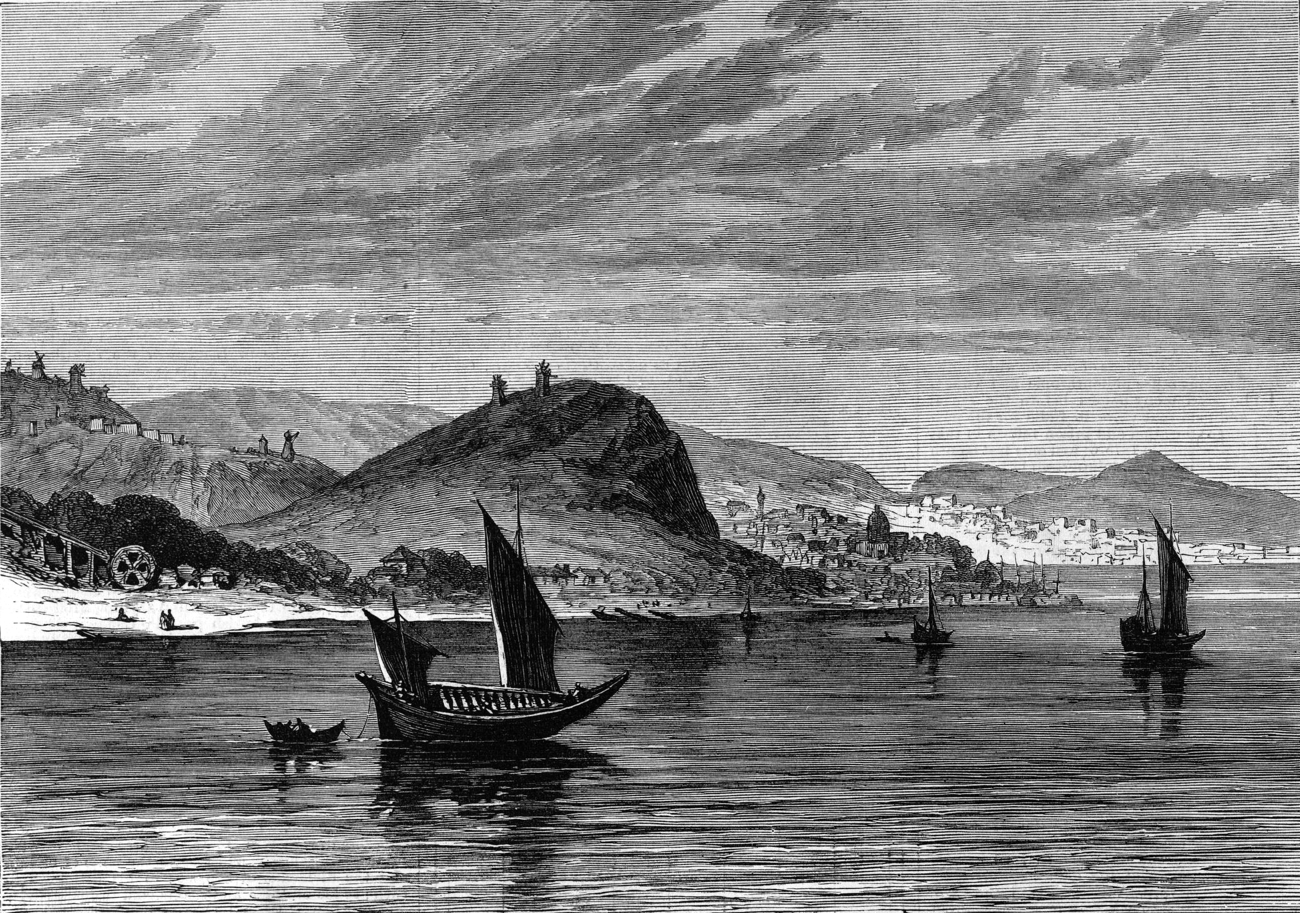 Tuldscha, on the Danube